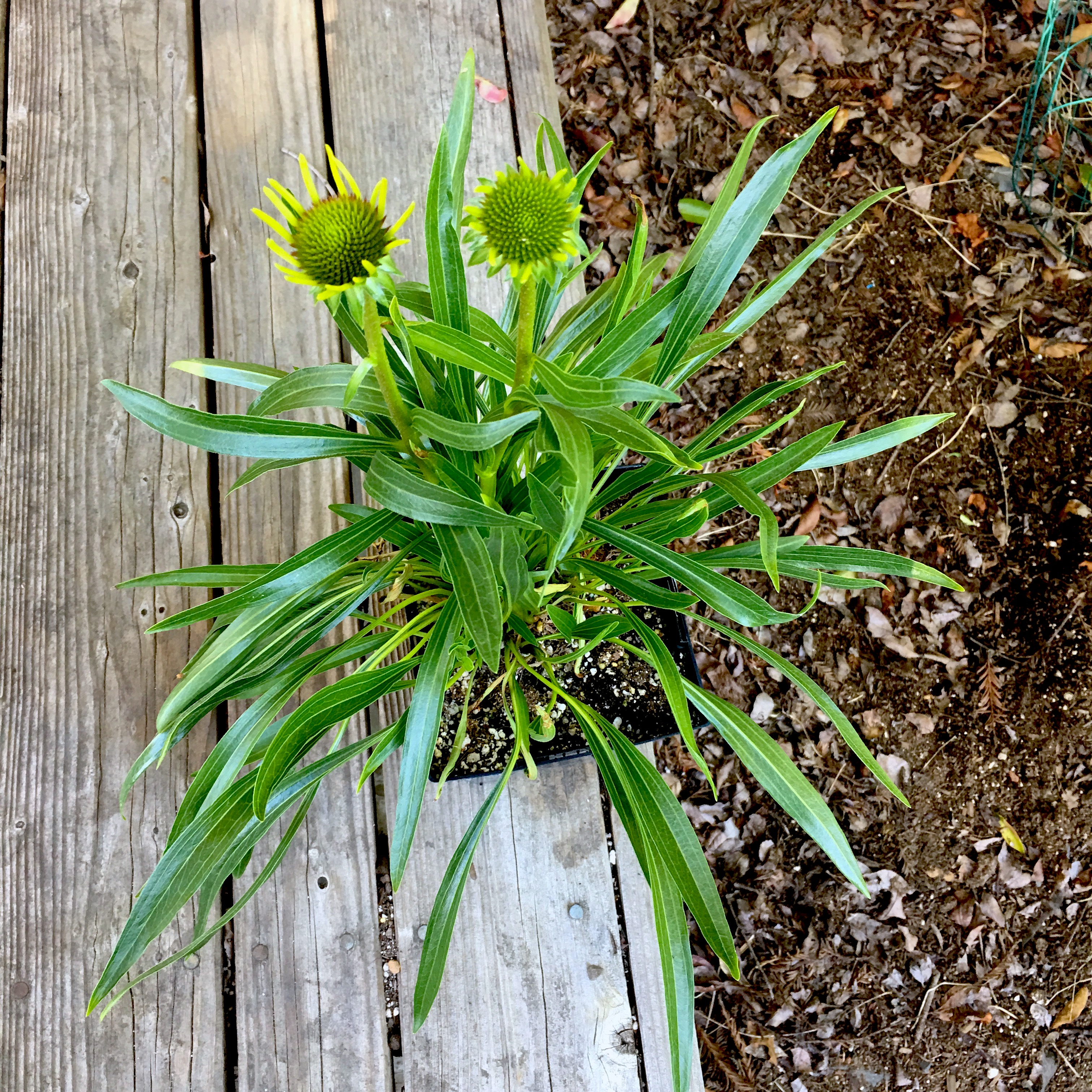 Yellow coneflower (Echinacea paradoxa) growing in a container in Santa Rosa, Ca. on May 23, 2019.